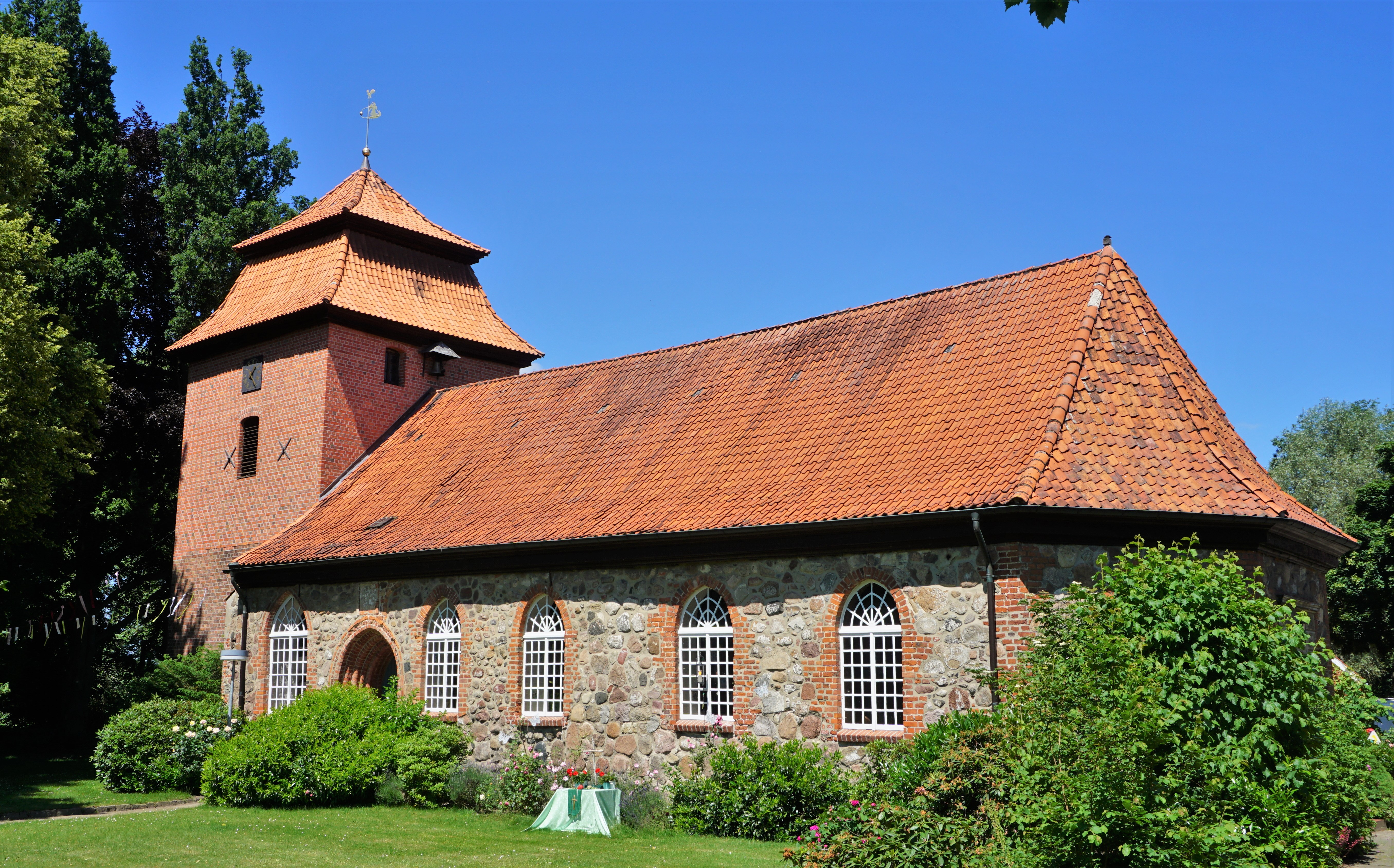 Saint Willibrord Church in Neetze (district of Lüneburg, Germany)